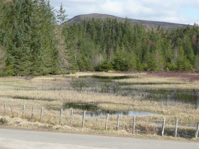 Loch Moraig N This is a reed surrounded lochan linked to the larger loch and ideal for birds and fish. Five herons rose on our arrival, ducks and moorhens were less bothered. Meall Mor is just visible above the trees on the far side of the lochan.